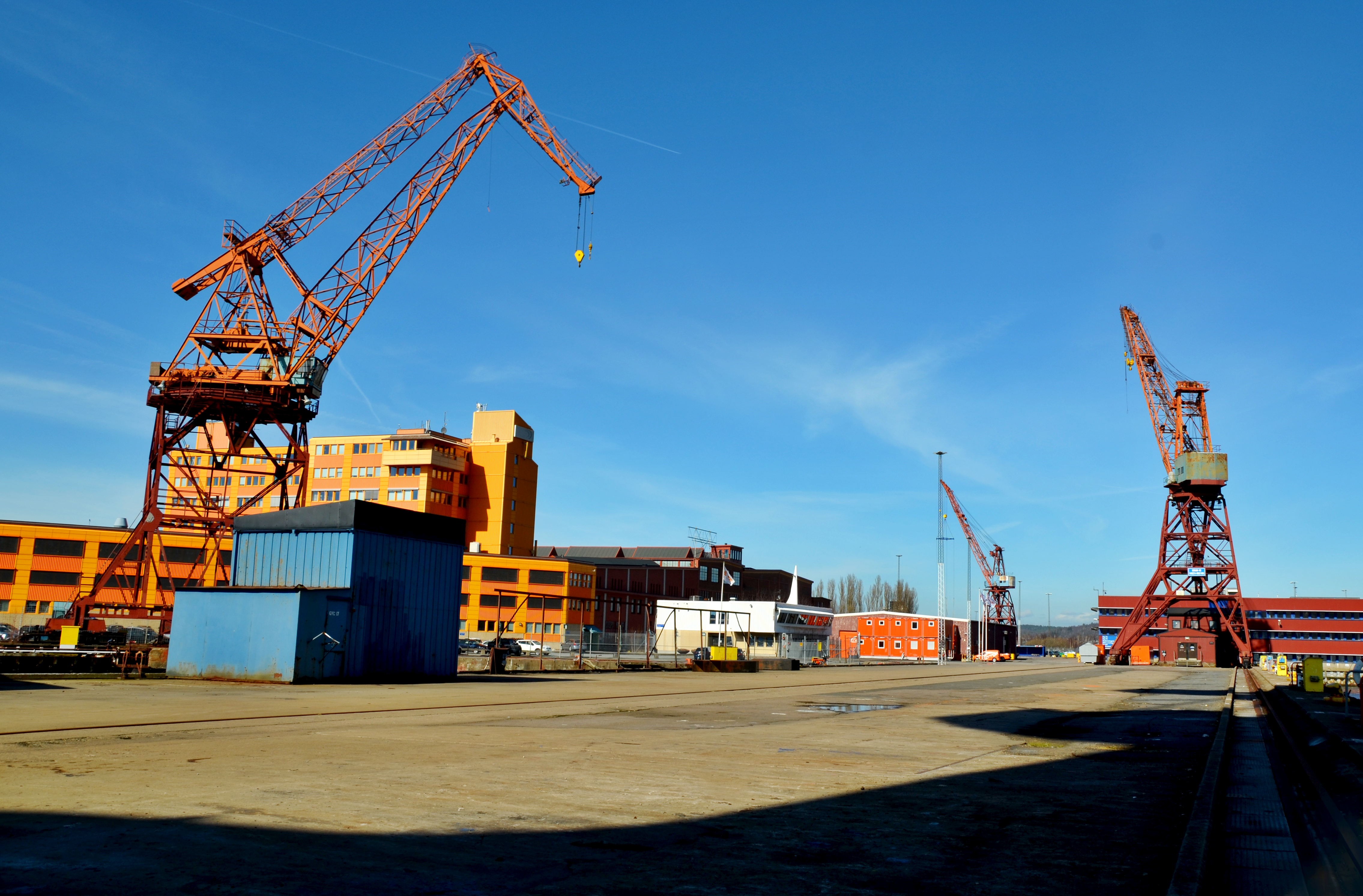 Götaverken Shipyard 4th April, 2017